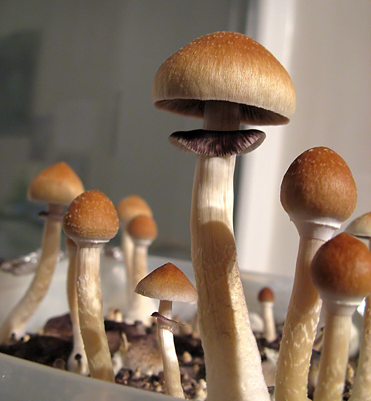 Psilocybe cubensis